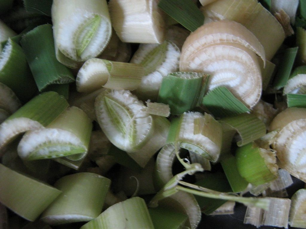 Typha latifolia. Section.